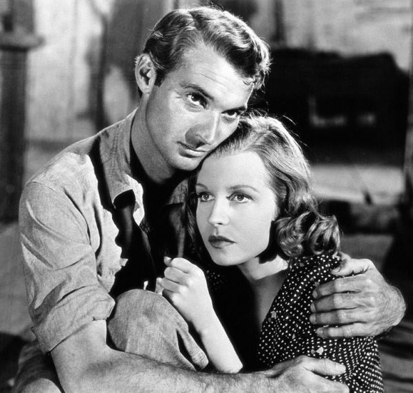 Zachary Scott & Betty Field in The Southerner - cropped screenshot